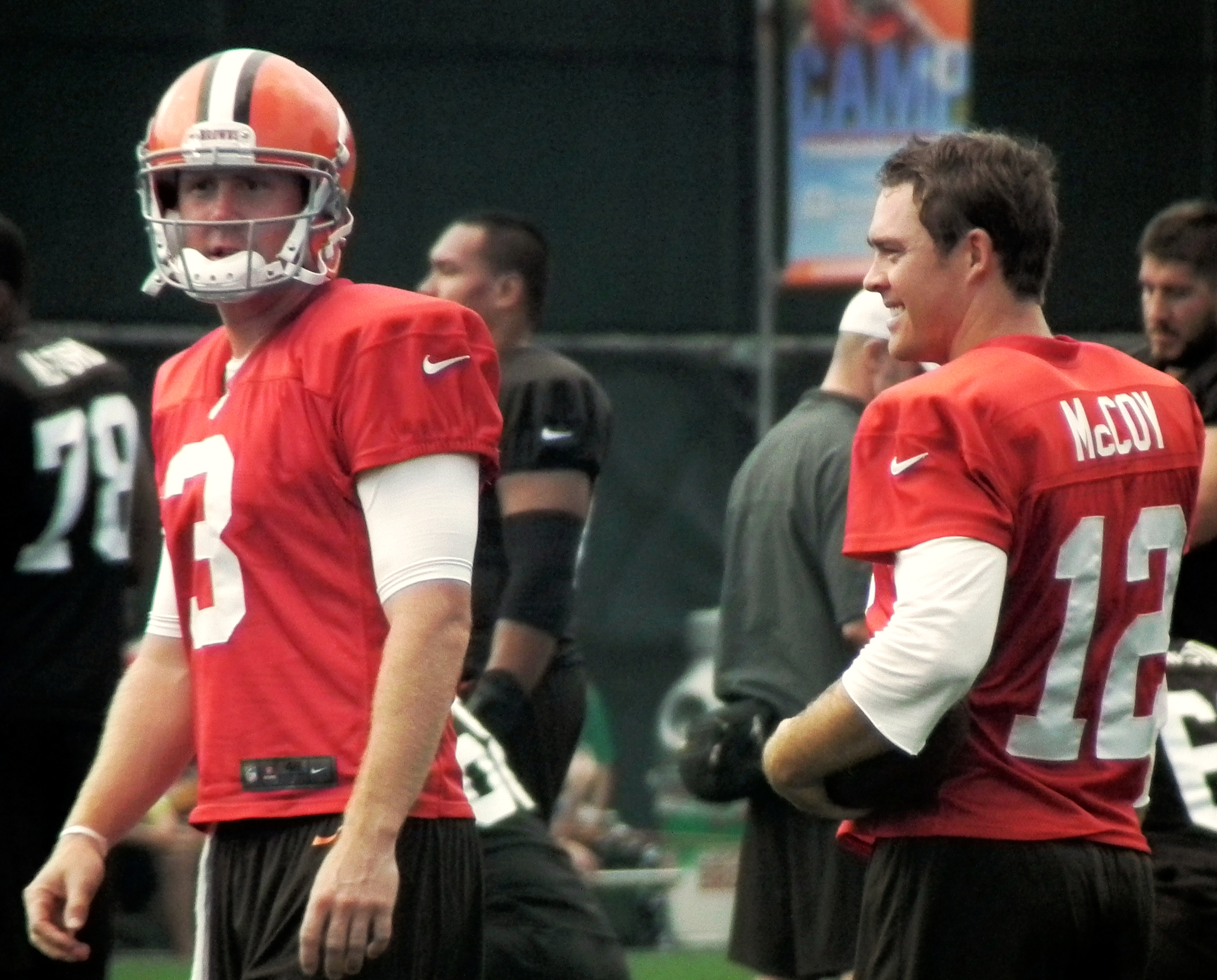 Quarterbacks Brandon Weeden and Colt McCoy of the Cleveland Browns